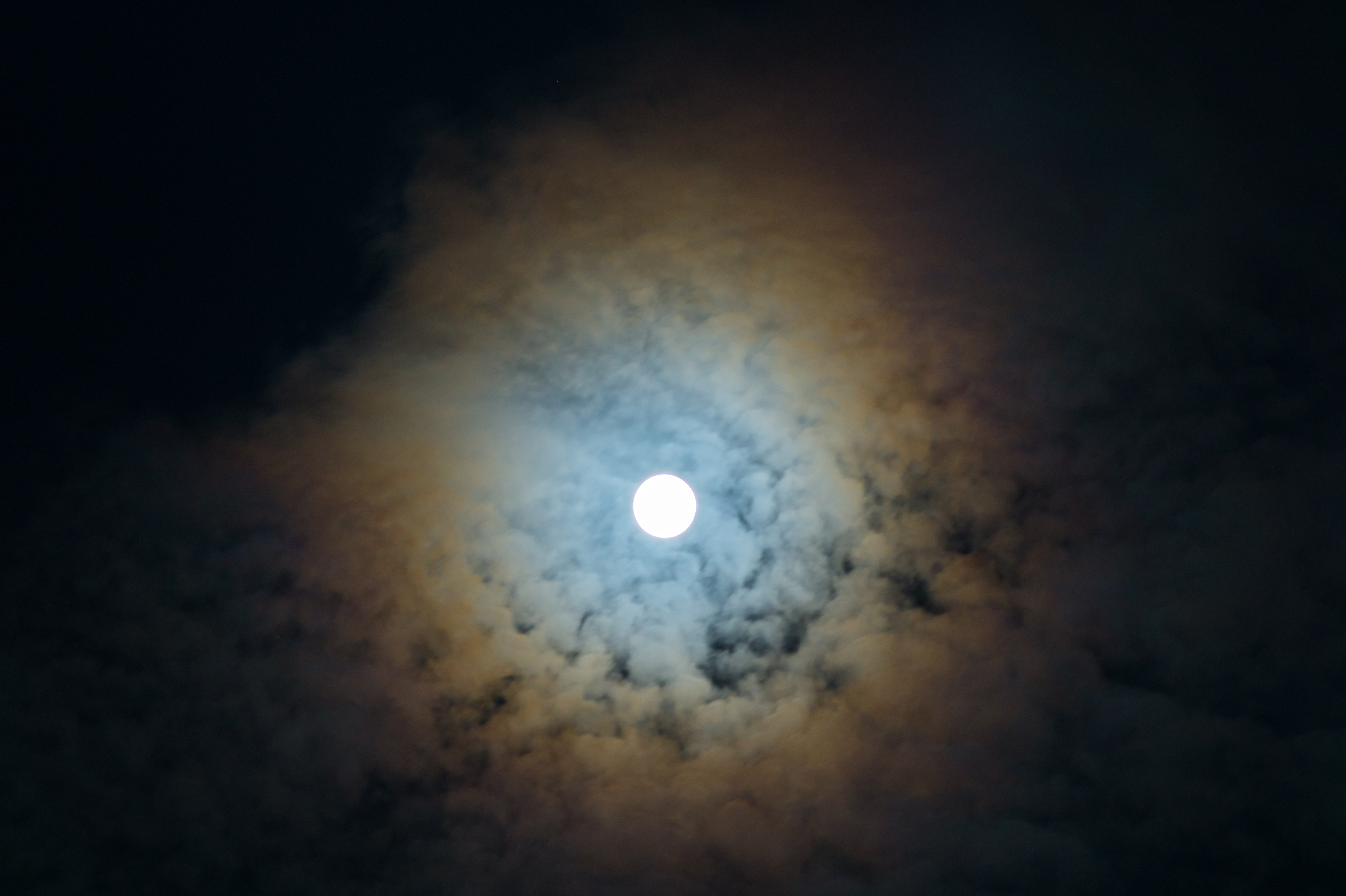 Lunar corona as seen from Mumbai, India.